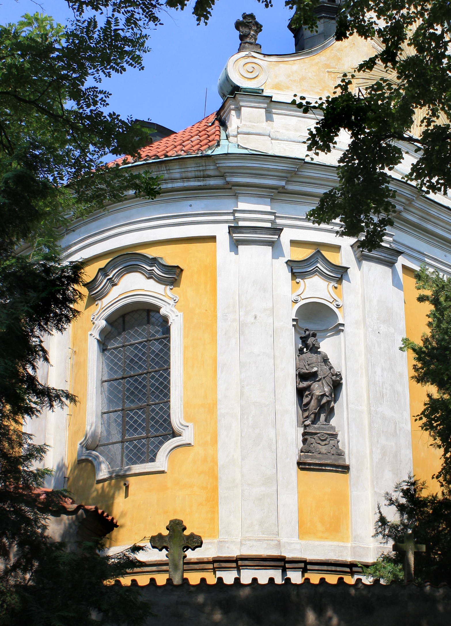 Church of the Nativity of Saint John the Baptist in Vraný, Czech Republic